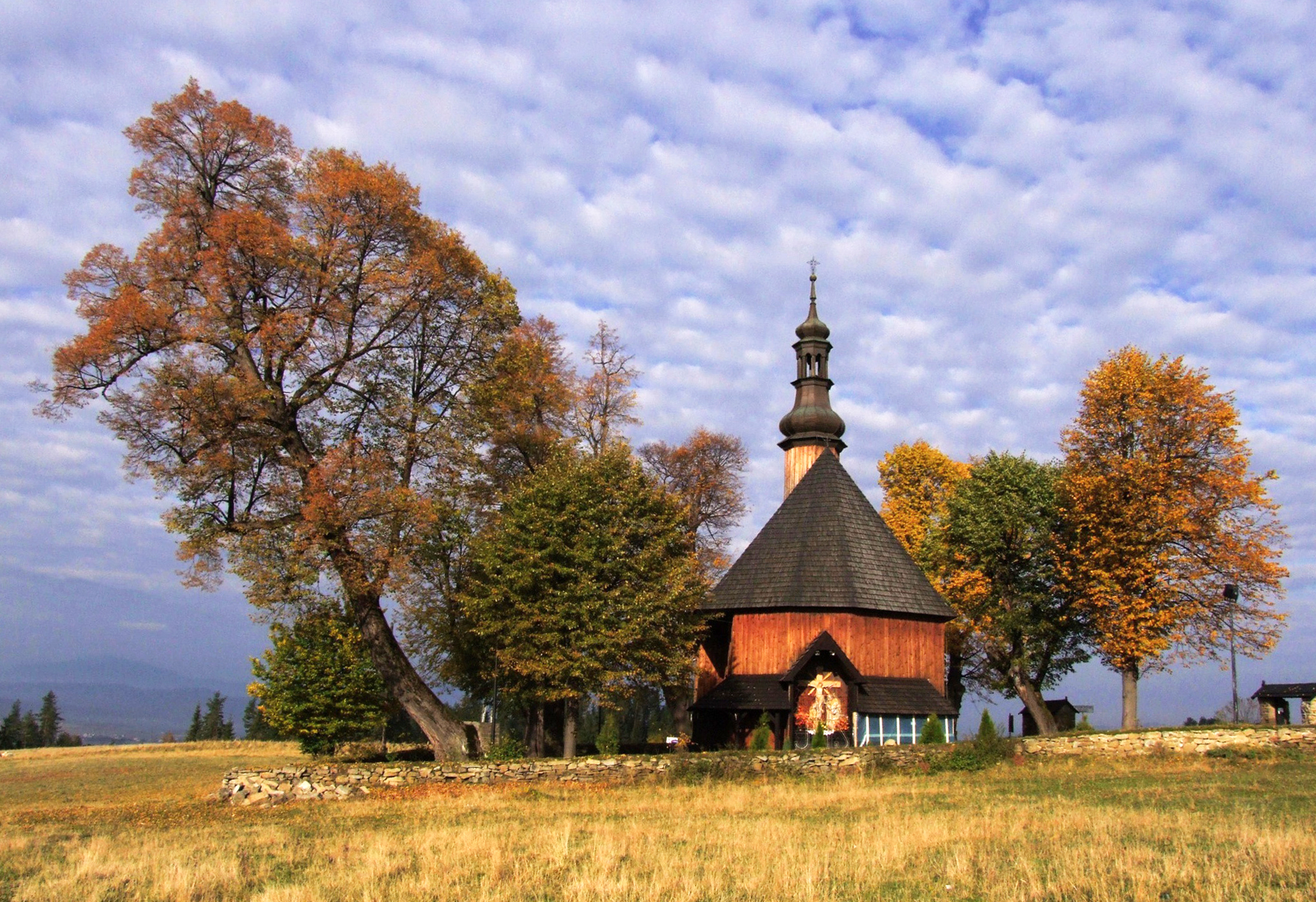 Church of the Holy Cross in Chabówka (Piątkowa Góra)